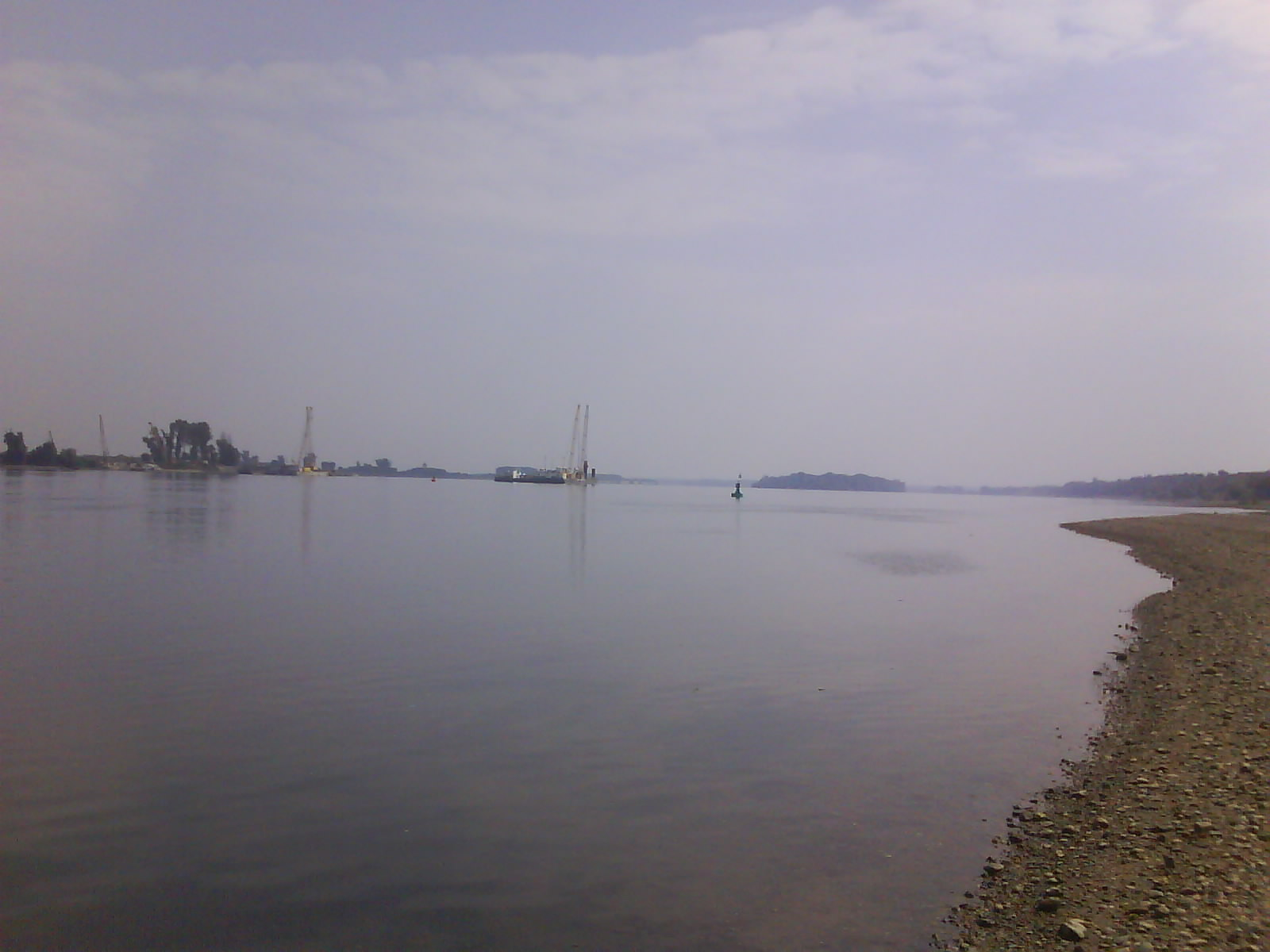 Works at Vidin Calafat Bridge